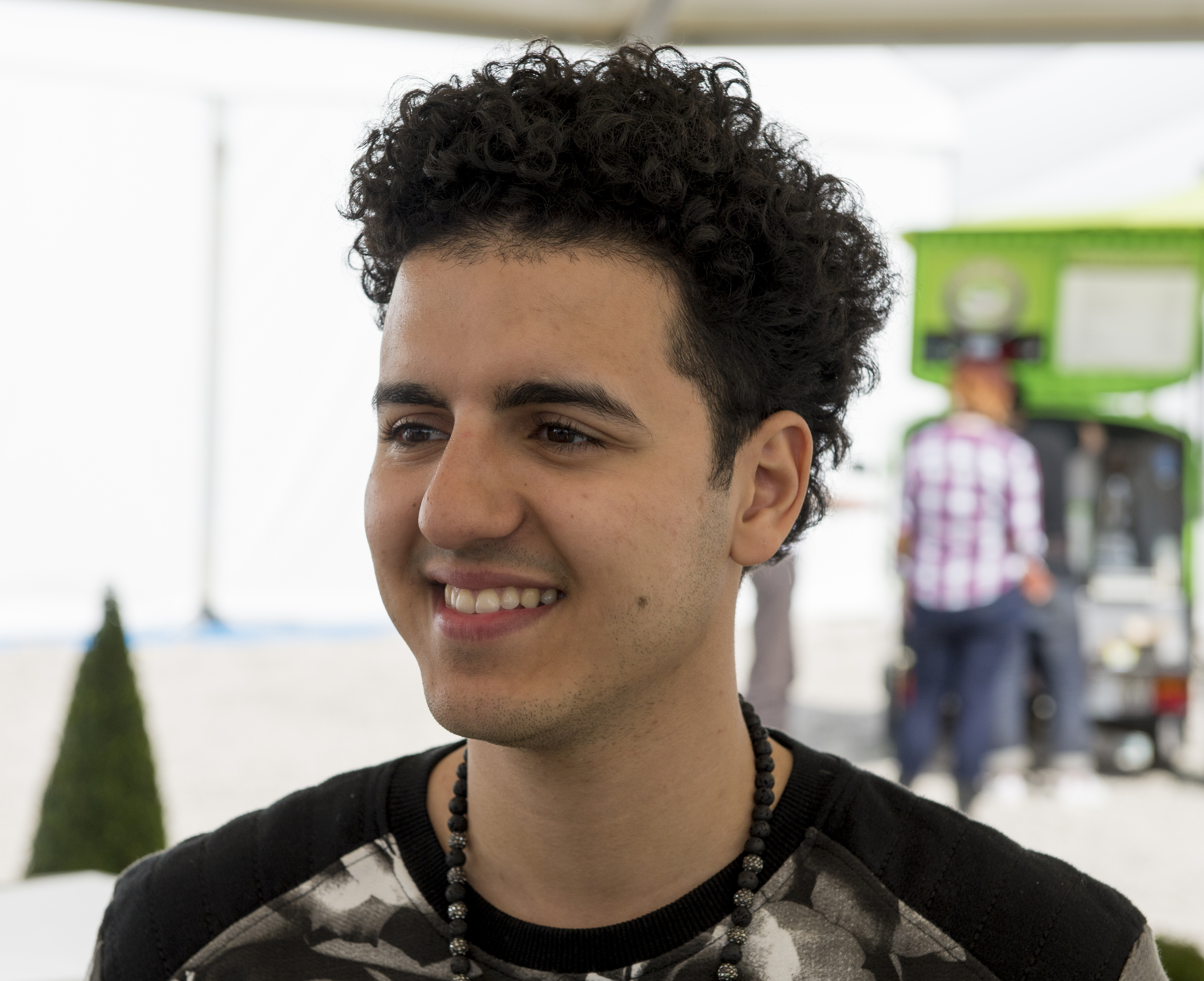 Basim during a Meet & Greet at the Eurovision Song Contest 2014.